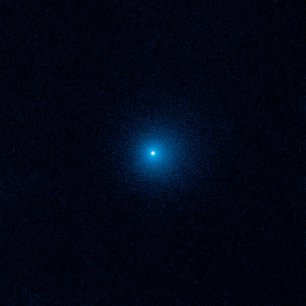 This Hubble Space Telescope image shows a fuzzy cloud of dust, called a coma, surrounding the comet C/2017 K2 PANSTARRS (K2), the farthest active comet ever observed entering the solar system. Hubble snapped images of K2 when the frozen visitor was over 2.4 billion kilometres from the Sun, just beyond Saturn's orbit. Even at that remote distance, sunlight is warming the frigid comet, producing a 128,000-kilometre-wide coma that envelops a tiny, solid nucleus. K2 has been traveling for millions of years from its home in the Oort Cloud, a spherical region at the edge of our solar system. This frigid area contains hundreds of billions of comets, the icy leftovers from the formation of the solar system 4.6 billion years ago. The image was taken in June 2017 by Hubble's Wide Field Camera 3. Links: NASA Press Release Schematic of comet C/2017 K2's approach to the Solar System